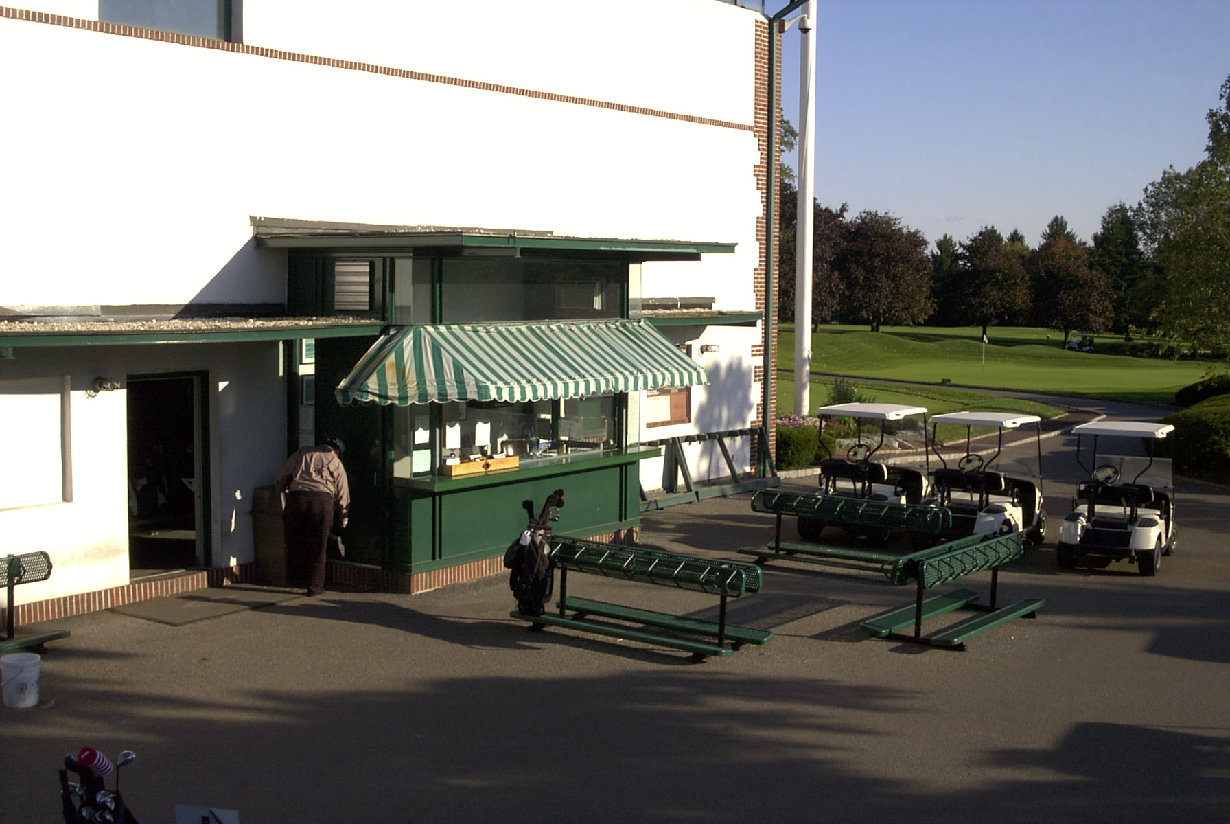 I took this photograph of the starter's shack at Westchester Country Club.